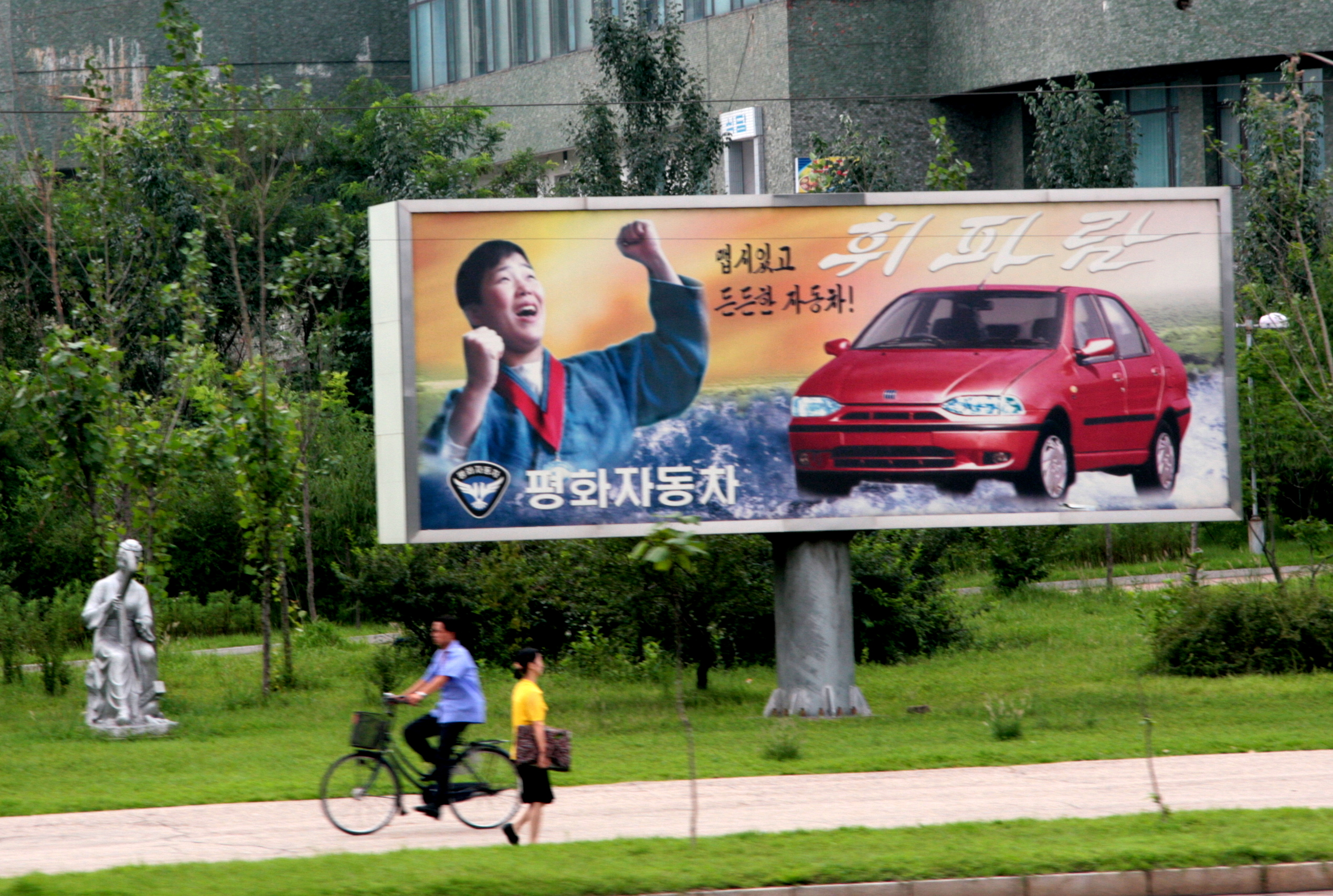 A billboard for Pyonghwa Motors in a Pyongyang park, with statue.The ad shows a Pyeonghwa Hwiparam, the North Korean version of the Fiat Siena.